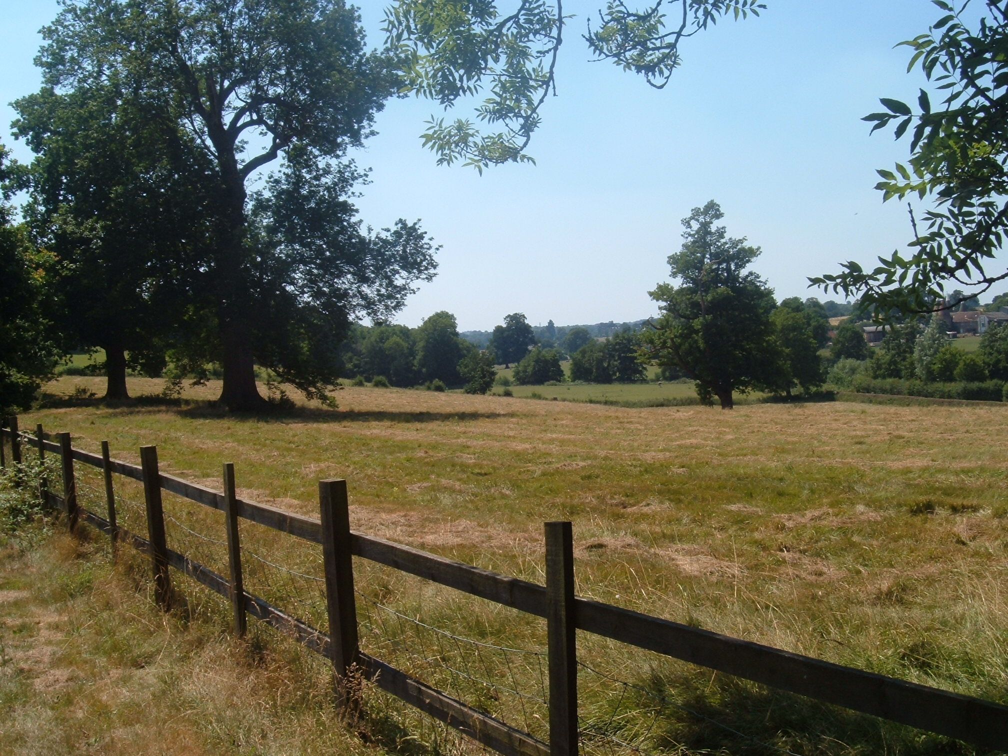 View from Finchcocks, Goudhurst, Kent